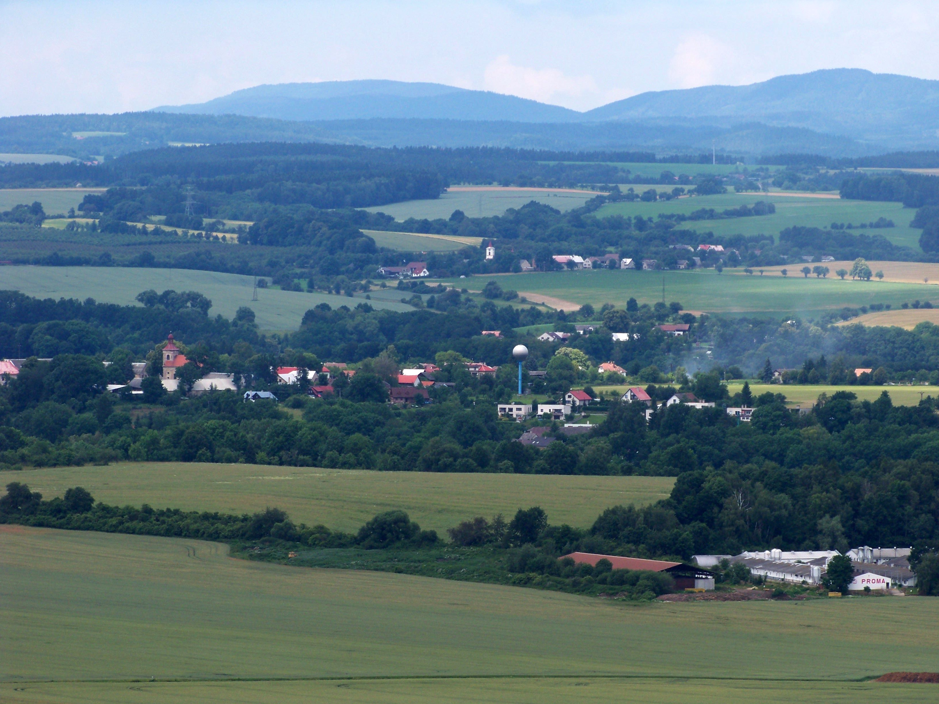 View of Loukovec, Koryta and Sezemice from Drábské světničky, Mladá Boleslav District, Central Bohemian Region, the Czech Republic. - Google Maps - Google Earth